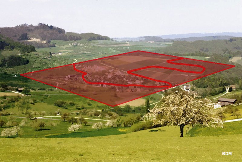 Swiss Biodiversity Monitoring, Landscapes sampling area (Z7)